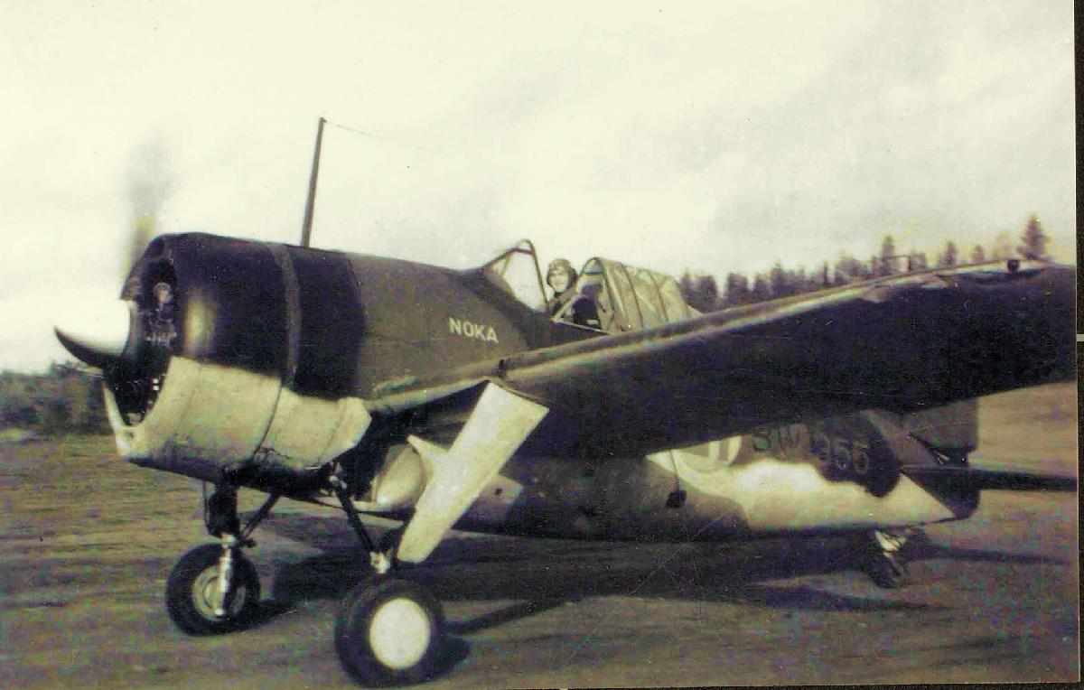 01_00090404 Repository: San Diego Air and Space Museum Archive